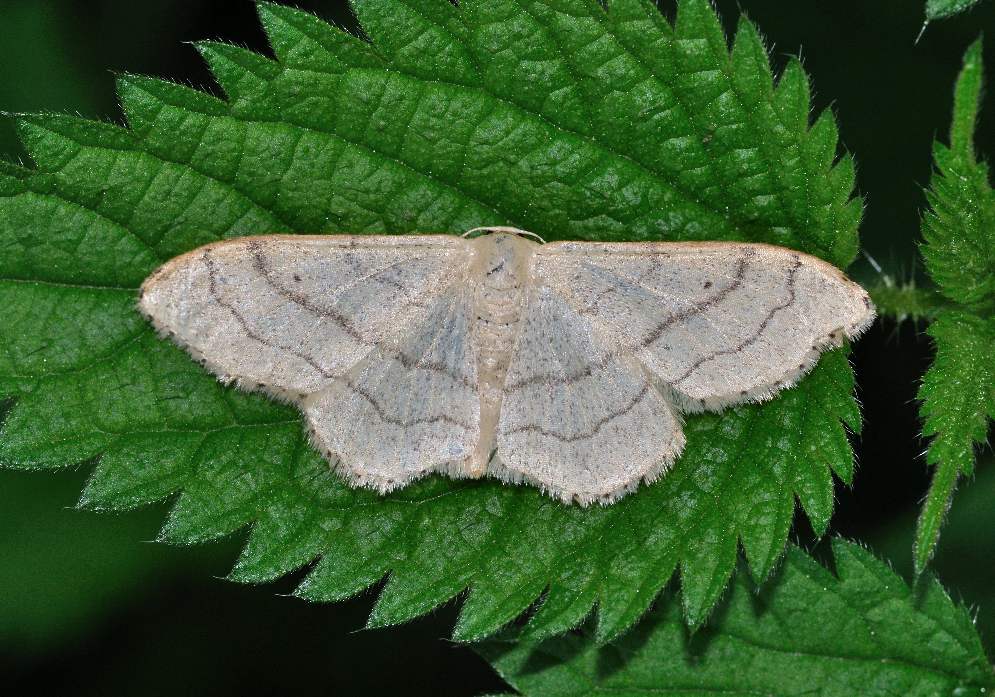 Riband Wave (Idaea aversata f. remutata) in Oberursel, Germany.